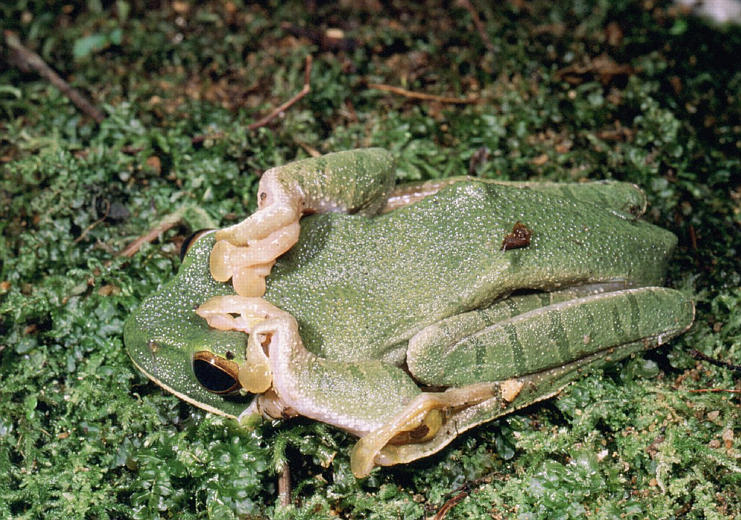 Boophis albilabris